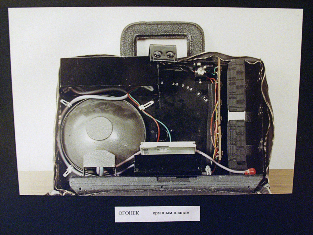 “Secret service gadgetry exhibition at Czech Center in Moscow”. Interceptor and other devices of the disbanded secret service of communist Czechoslovakia were exhibited at the Czech Center in Moscow in 2003. One of the exhibits, a flash tube for secret night photography hidden in a bag, with an infrared filter in the lock - a device of Soviet design and manufacture